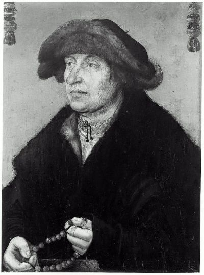 Portrait of a Man Holding a Rosary